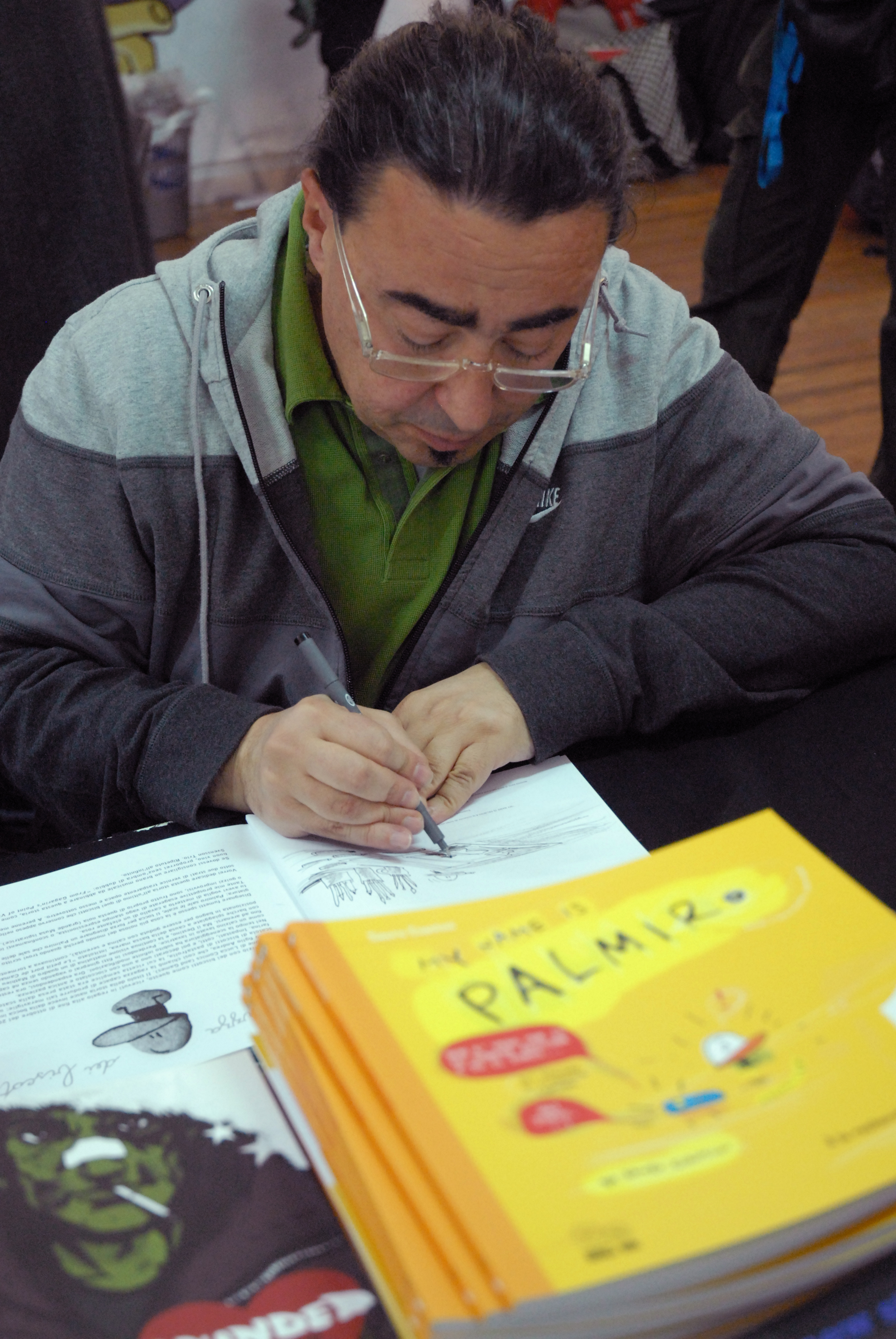 Sauro Ciantini Photo taken during Lucca Comics&Games 2010